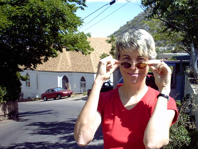 Author Emma Bull in sunglasses in Bisbee, Arizona.